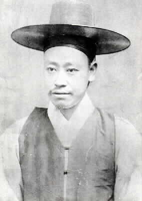 (Korean) 민영익(閔泳翊)